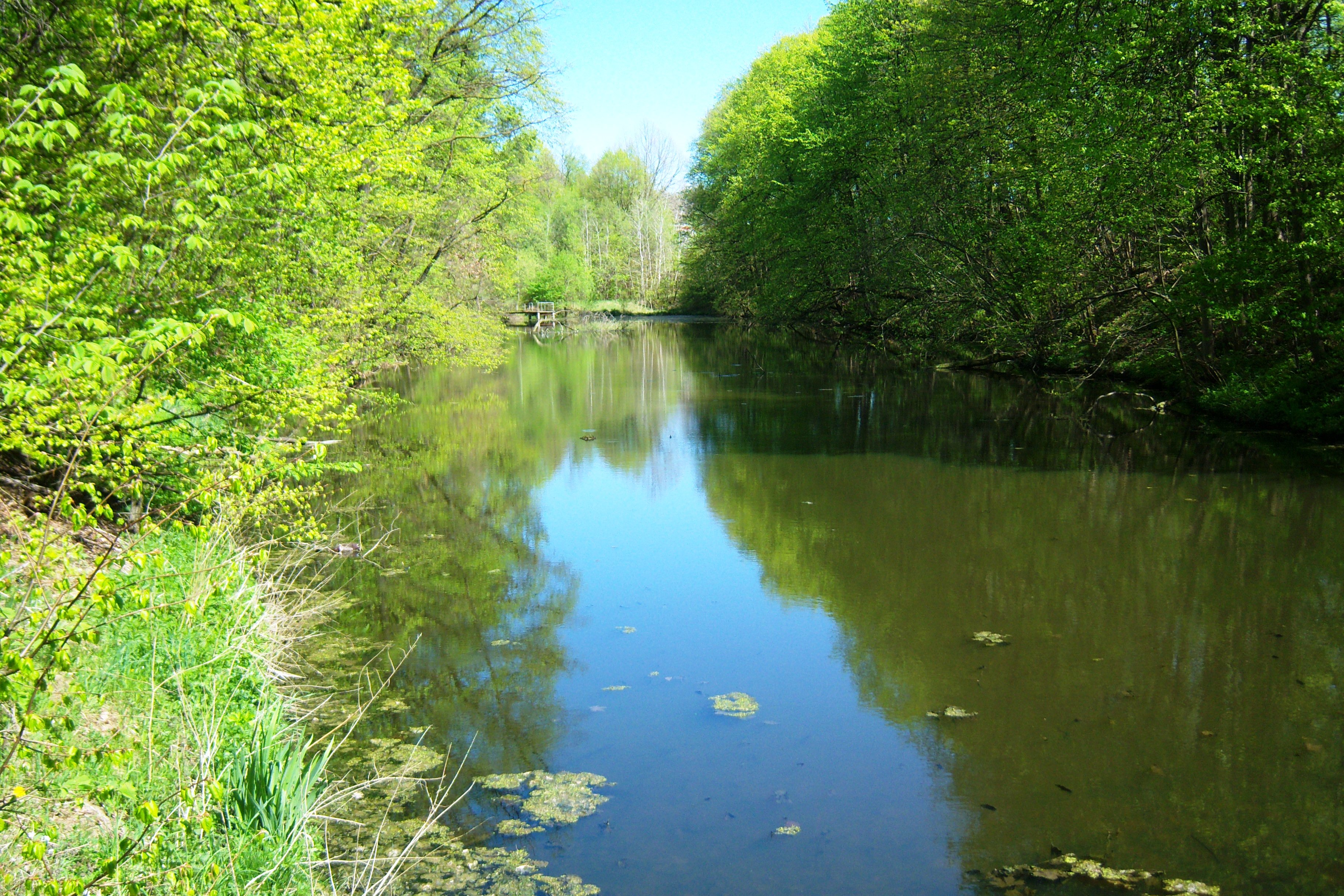 Pond in Margava, Kaunas district, Lithuania